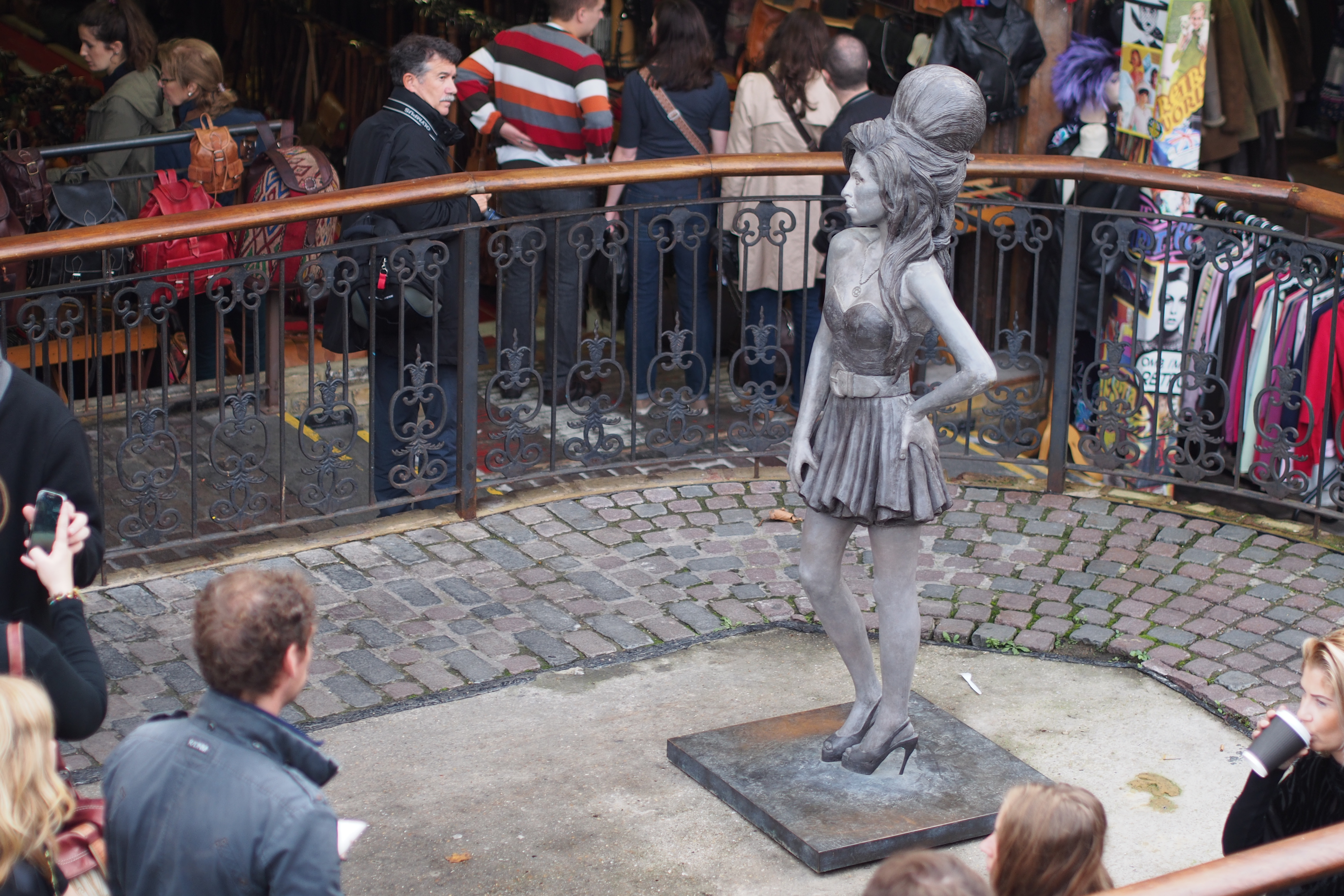 Statue of Amy Winehouse in Camden Town, London.